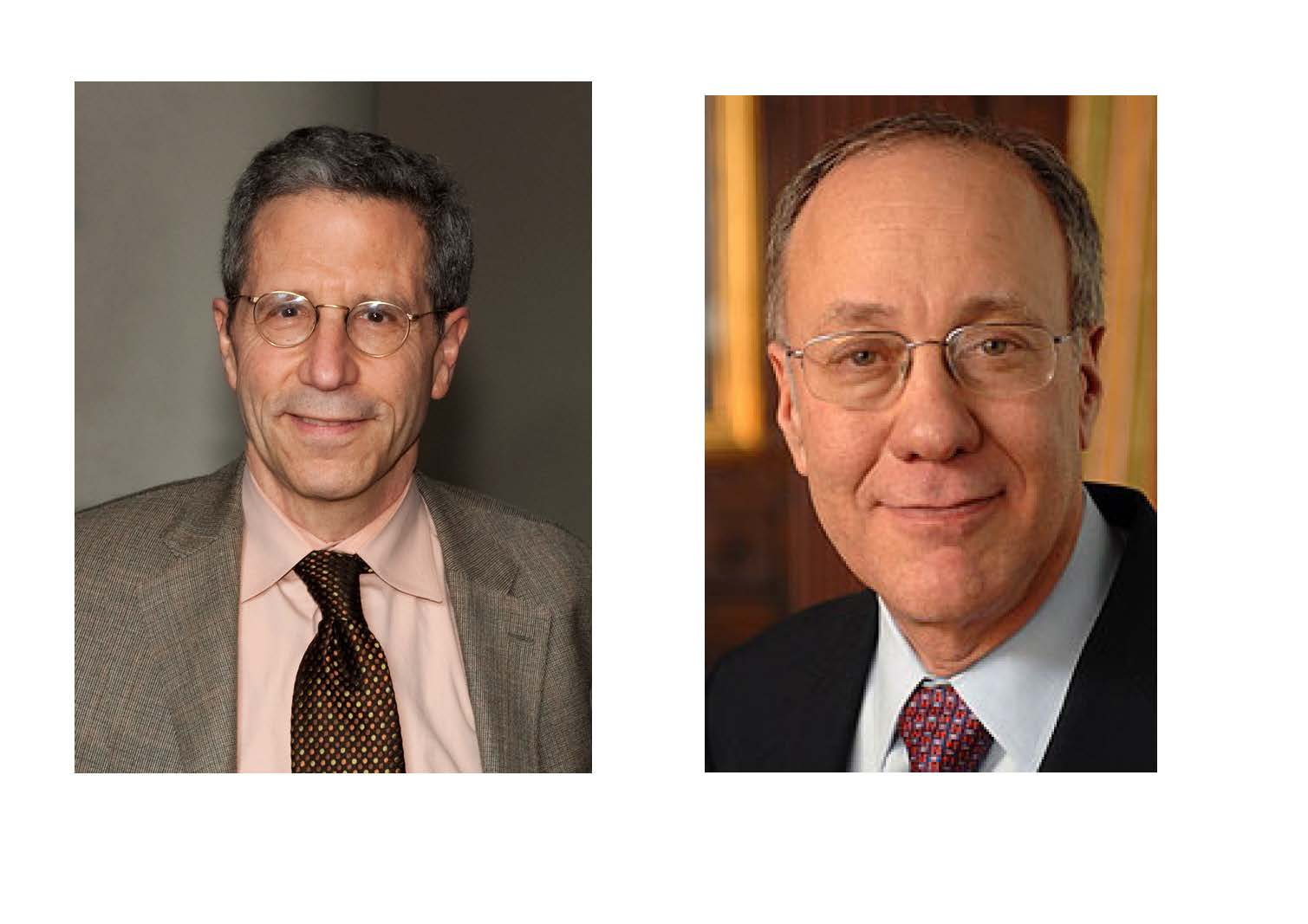 Eric Maskin (1950-), Roger Myerson (1951-)